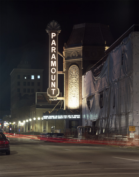 Paramount Theatre